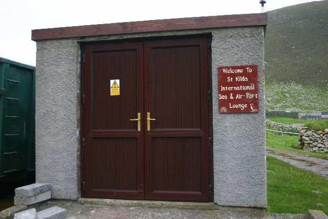 Not quite Heathrow. If you're stuck on St Kilda for weeks on end, either as a National Trust for Scotland volunteer or an employee of QinetiQ, then you need a sense of humour. This 'International Sea & Air-Port Lounge' is situated adjacent to the heli-pad and landing craft slipway.